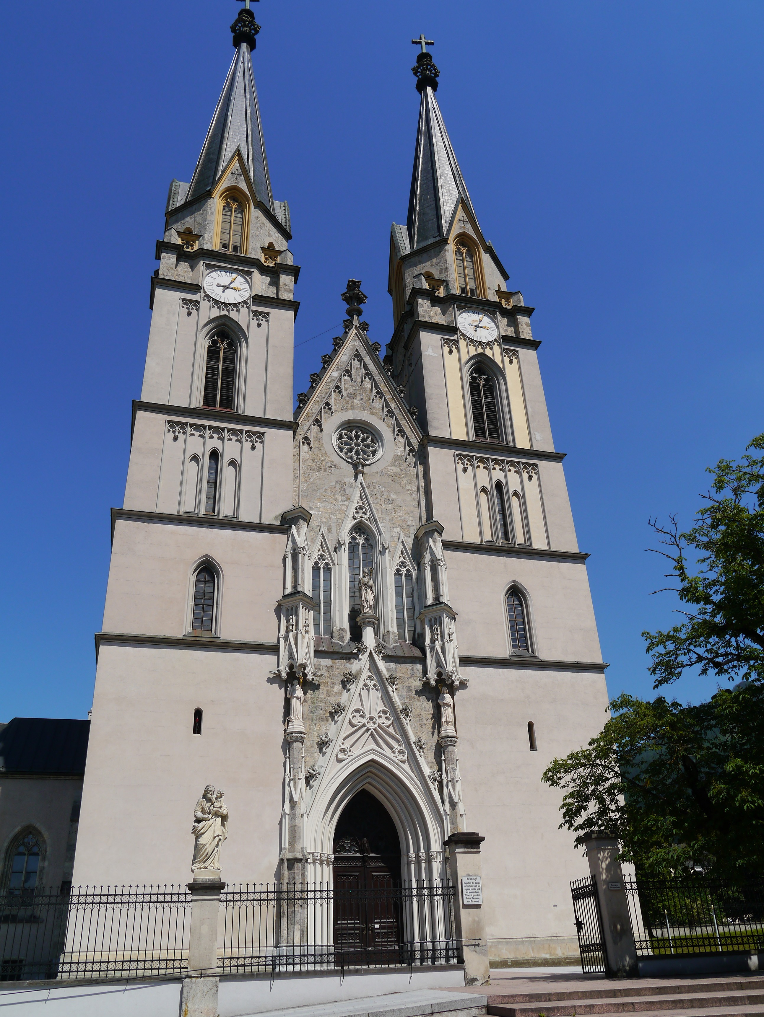 Facade of Admont Abbey Church, Admont, Styria